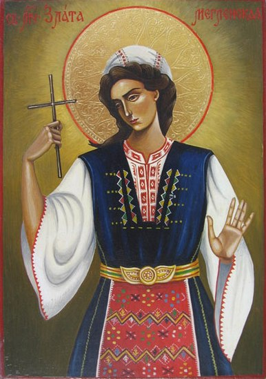 St. Zlata Moglenska, church "the Assu of Mother of God", Burgas, Bulgaria